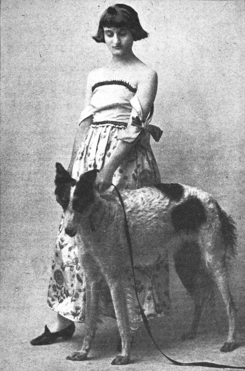 Clara Tice and her dog, from a 1916 publication.